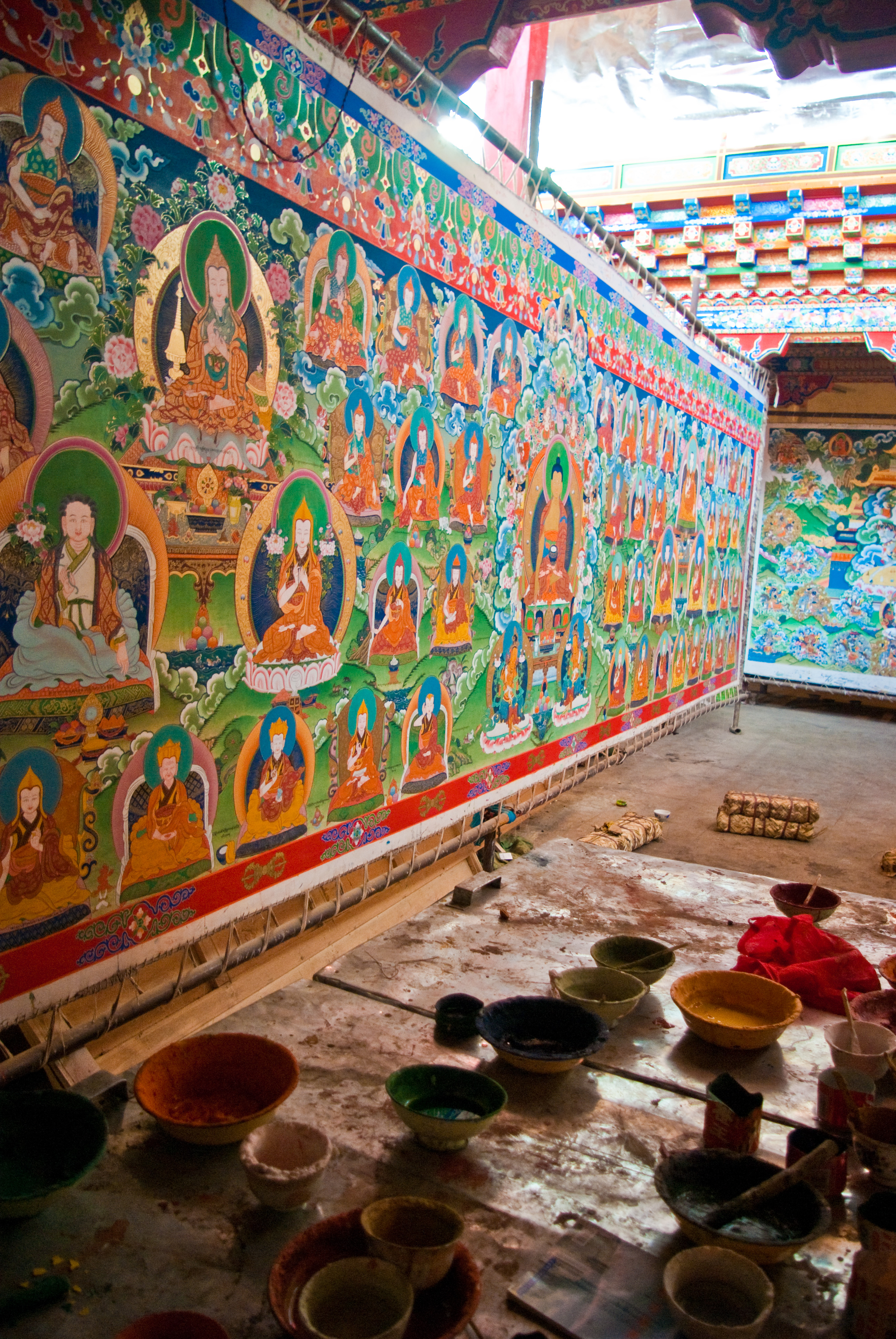 Reting monastery